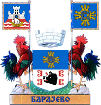 The Great Coat of arms of the city and municipality of Barajevo in Belgrade, Serbia